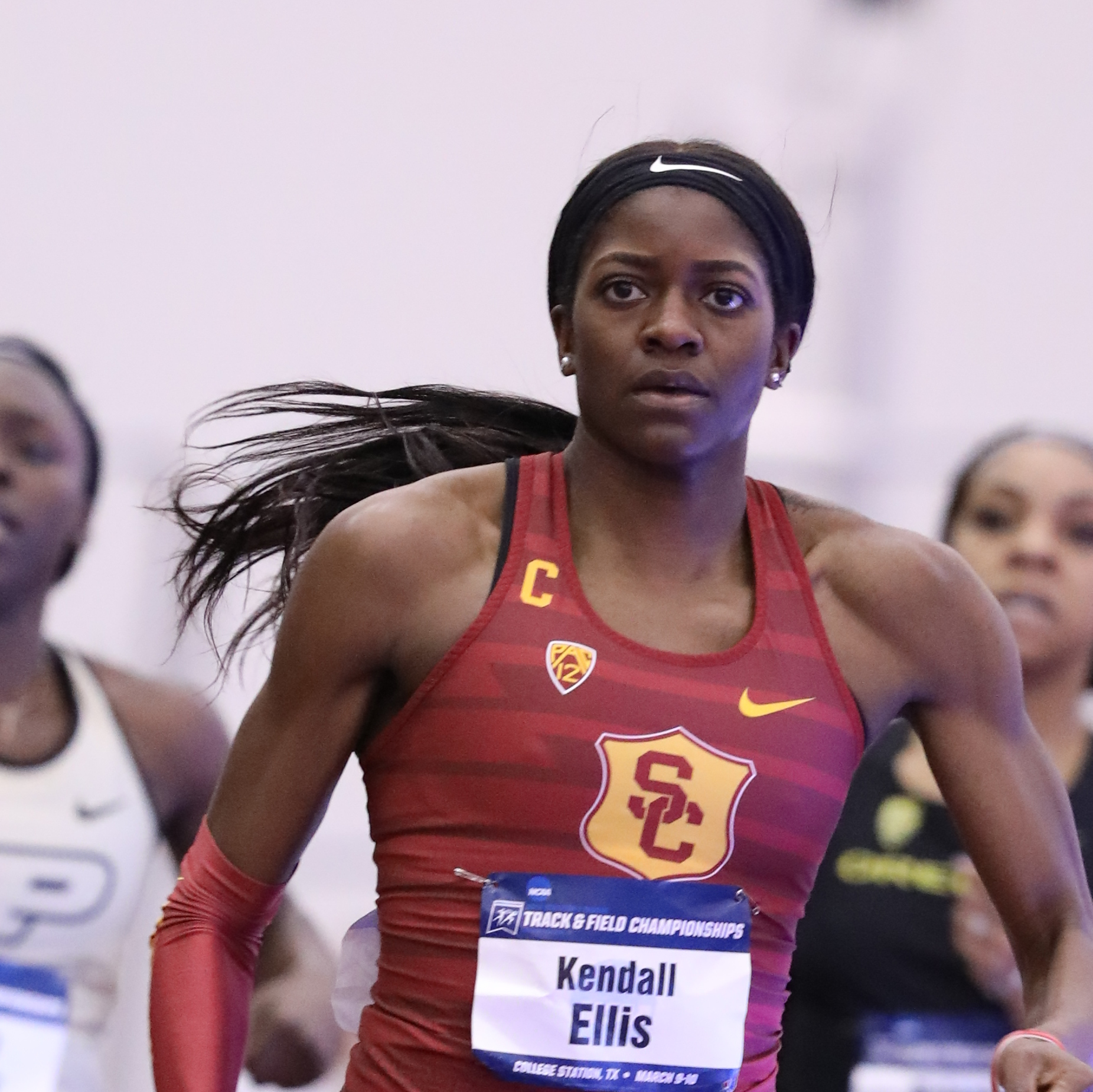 Kendall Ellis from a 2018 NCAA meet